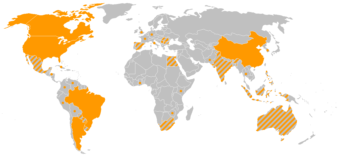 World GMO production